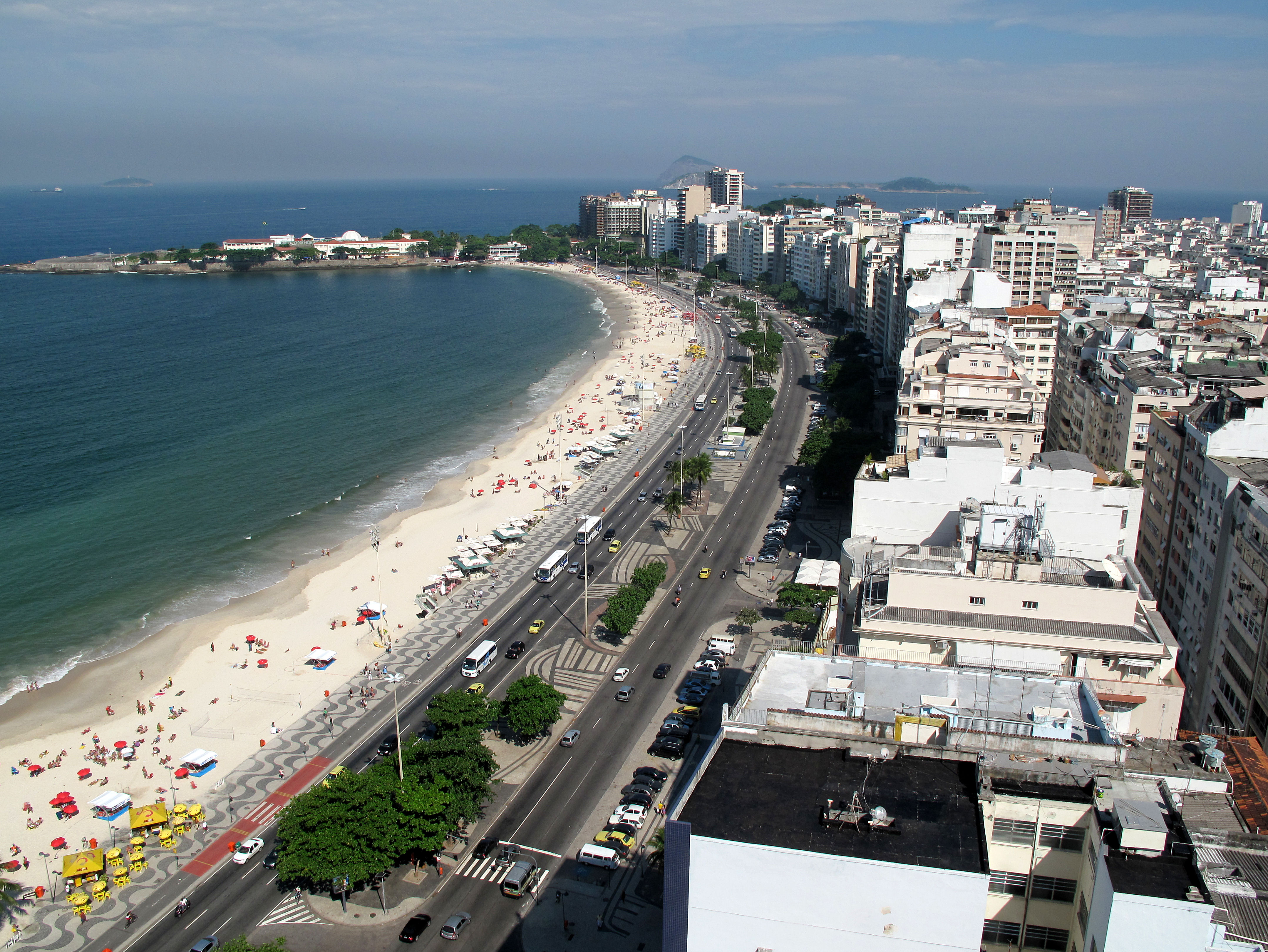 View from Hotel